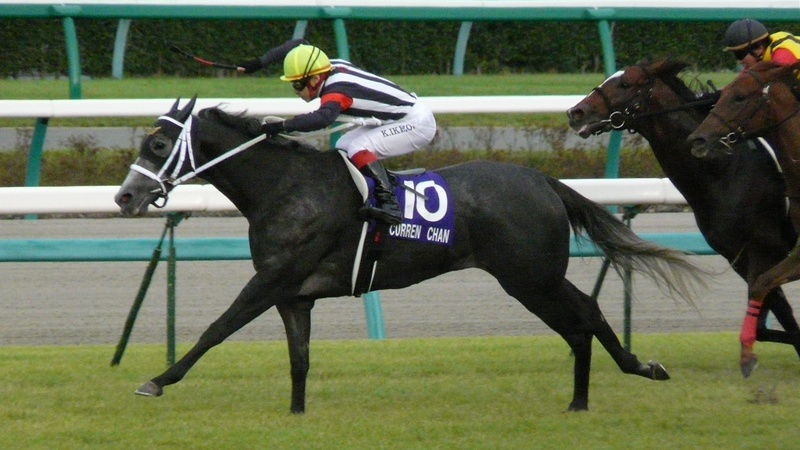 Curren-Chan20111002(1)